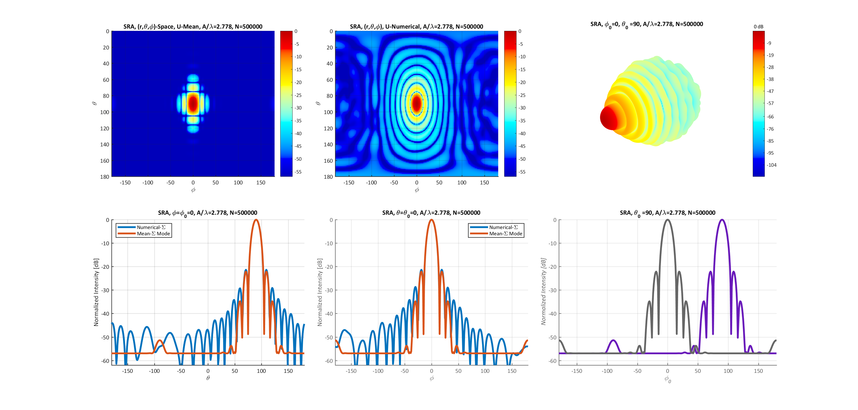 Characteristic Mode